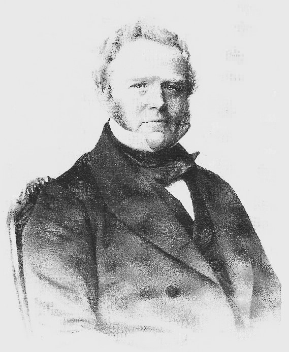 Johannes Fehling